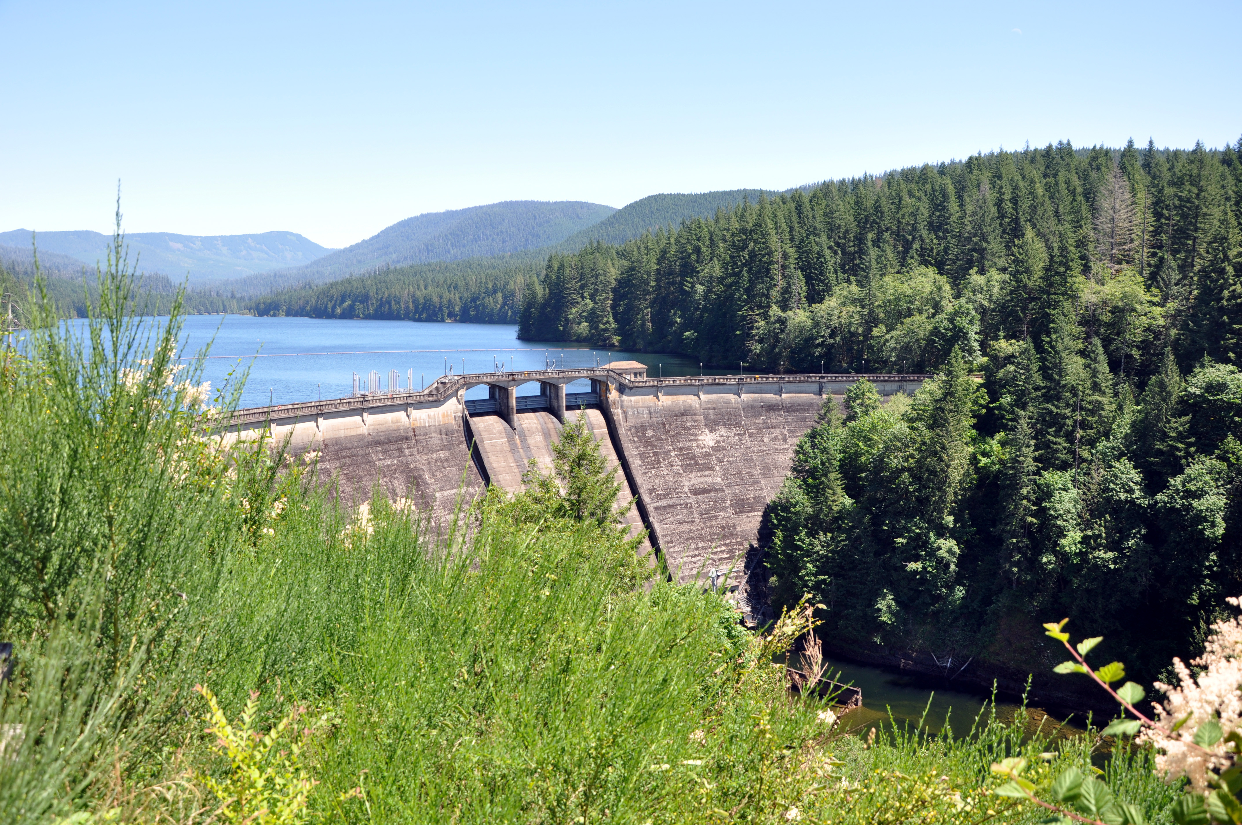 Reservoir 1 and Dam 1 on the Bull Run River in northwestern Oregon, United States